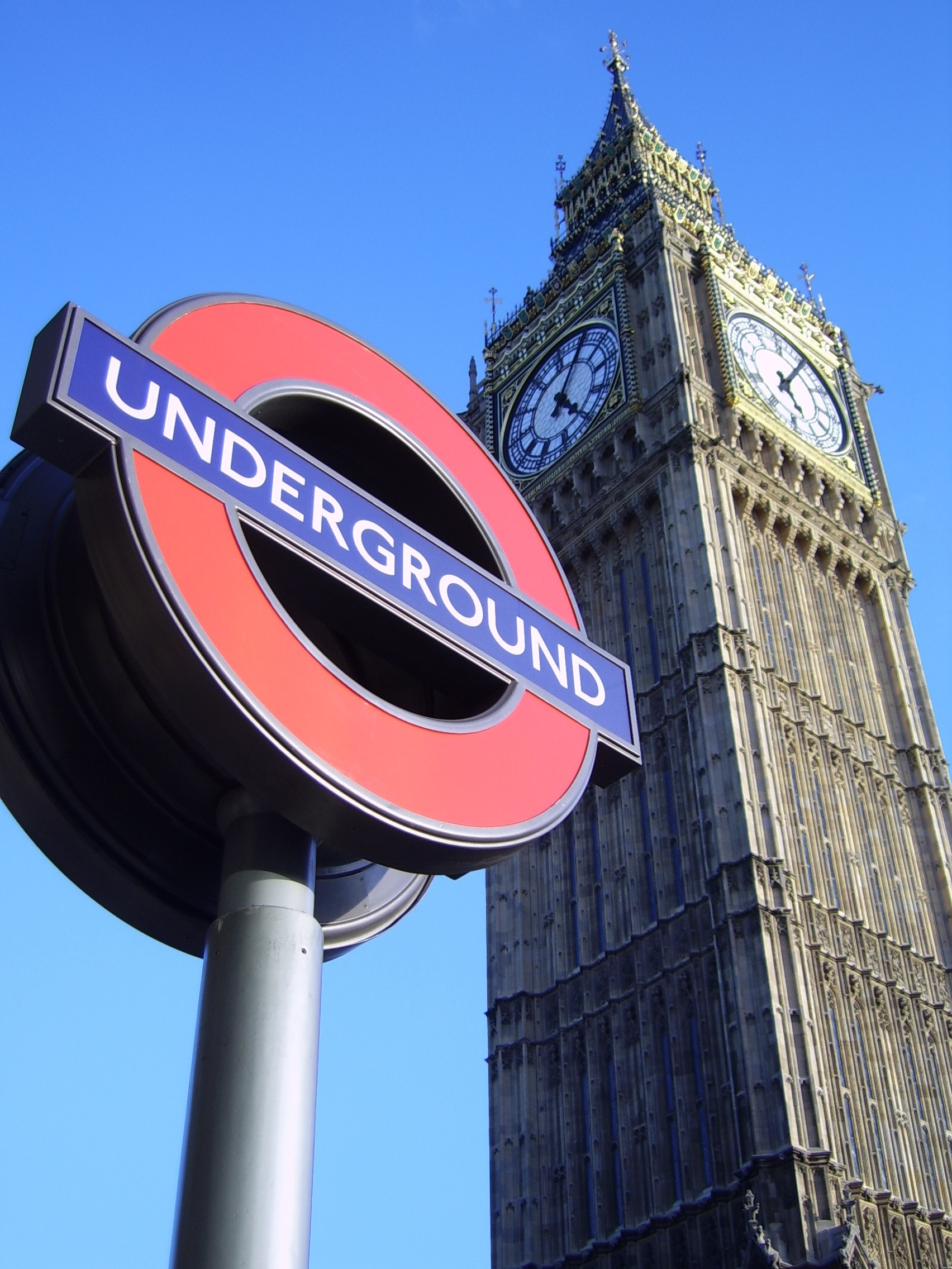 A London Underground Sign with Big Ben in the background.